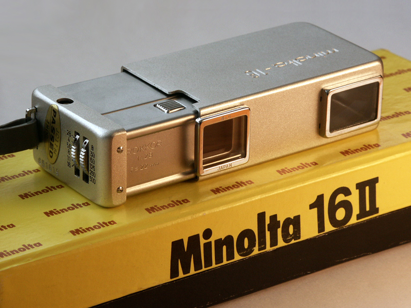 Minolta 16 II 16mm subminiature camera, c. 1960, with original box.